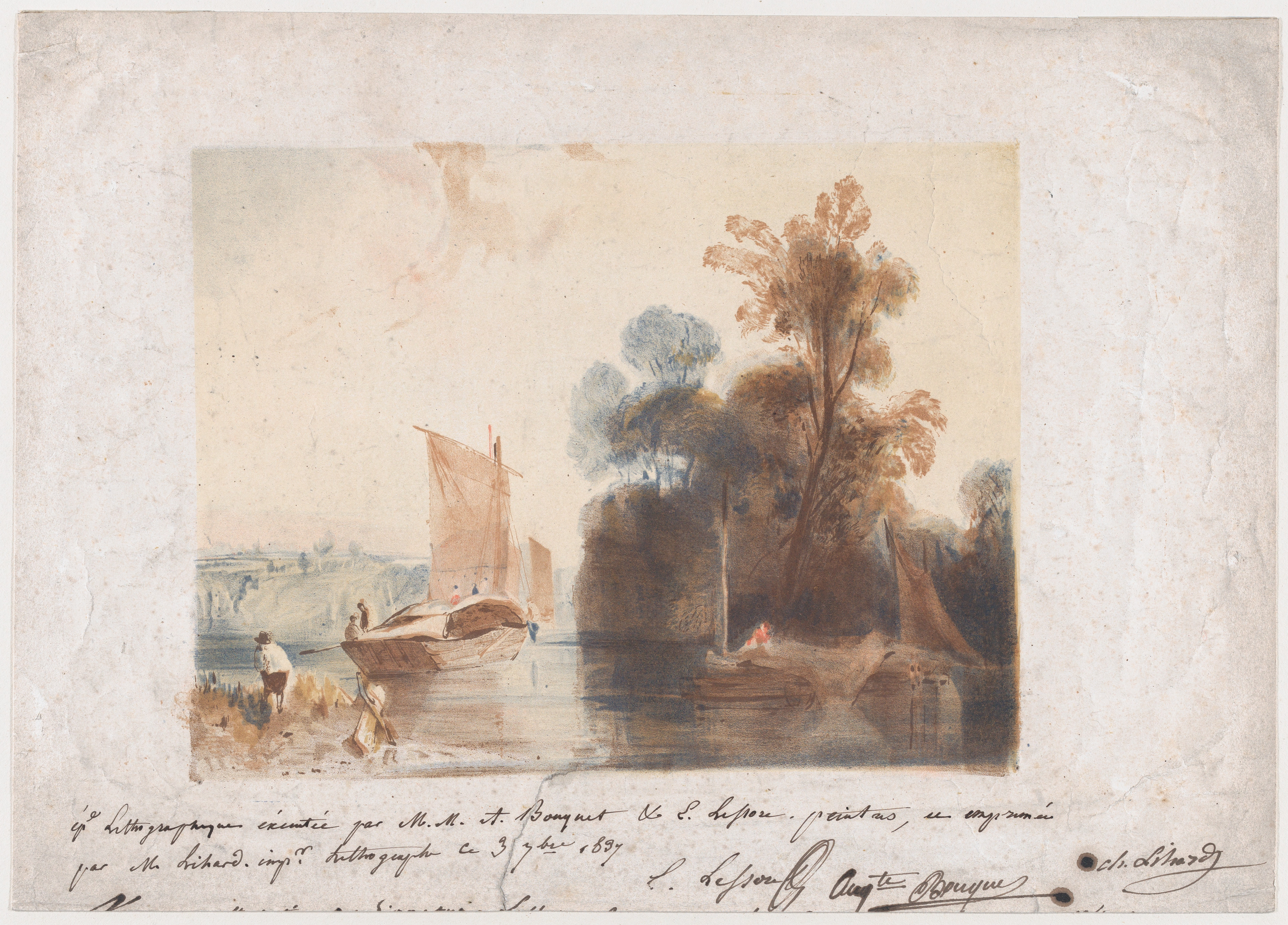 Print; Prints